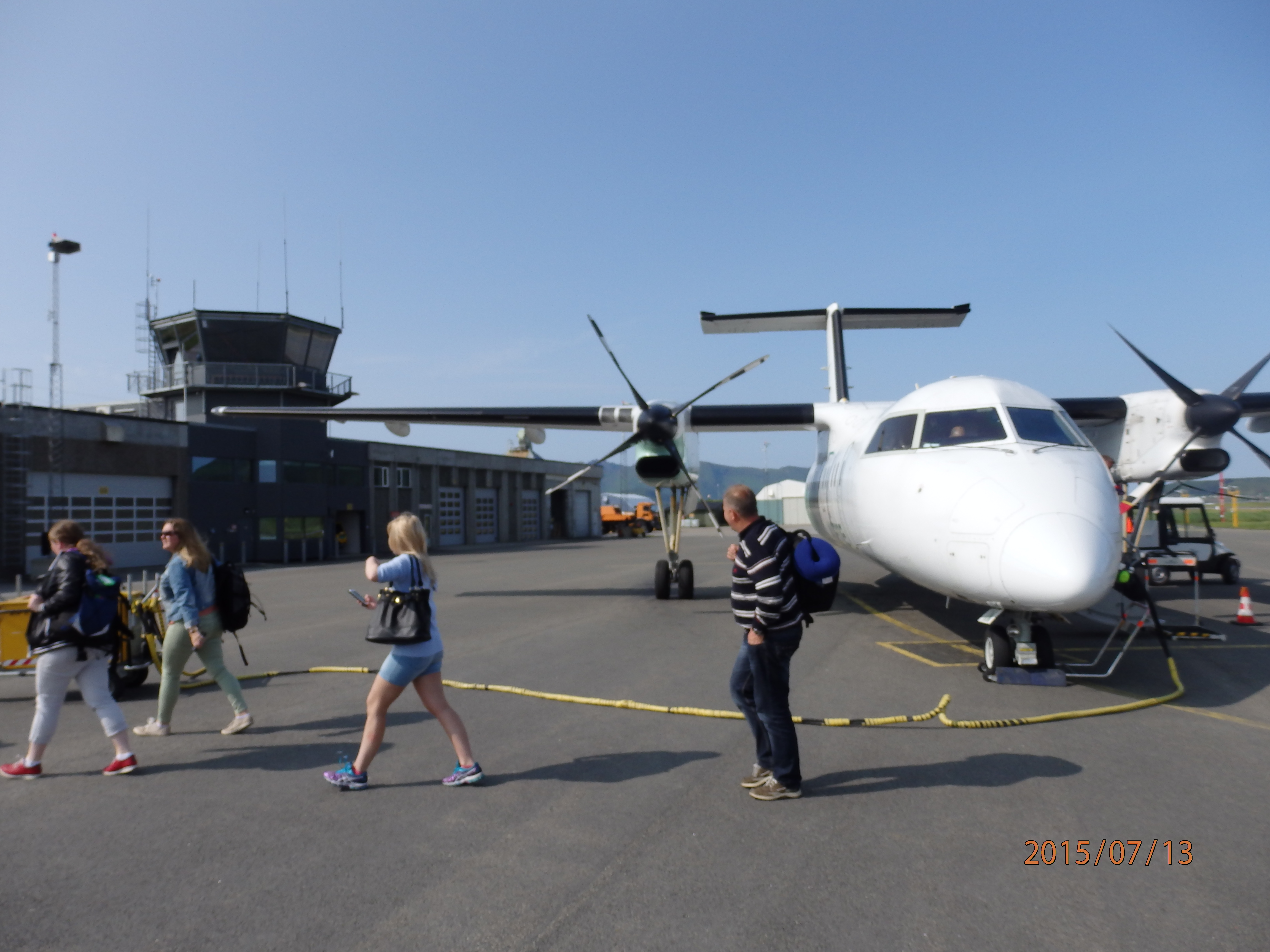 Stokkmarknes lufthavn Stokka